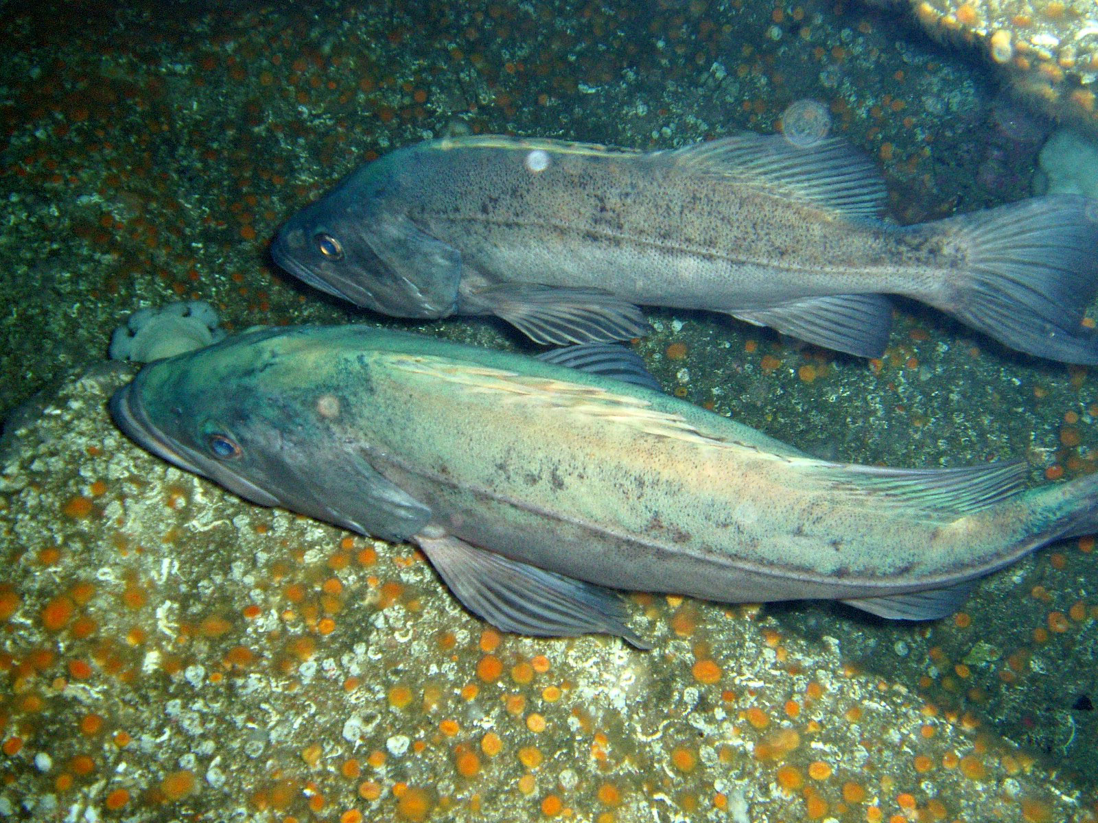 Sebastes paucispinis (Bocaccio). Courtesy of the Monterey Bay Aquarium.